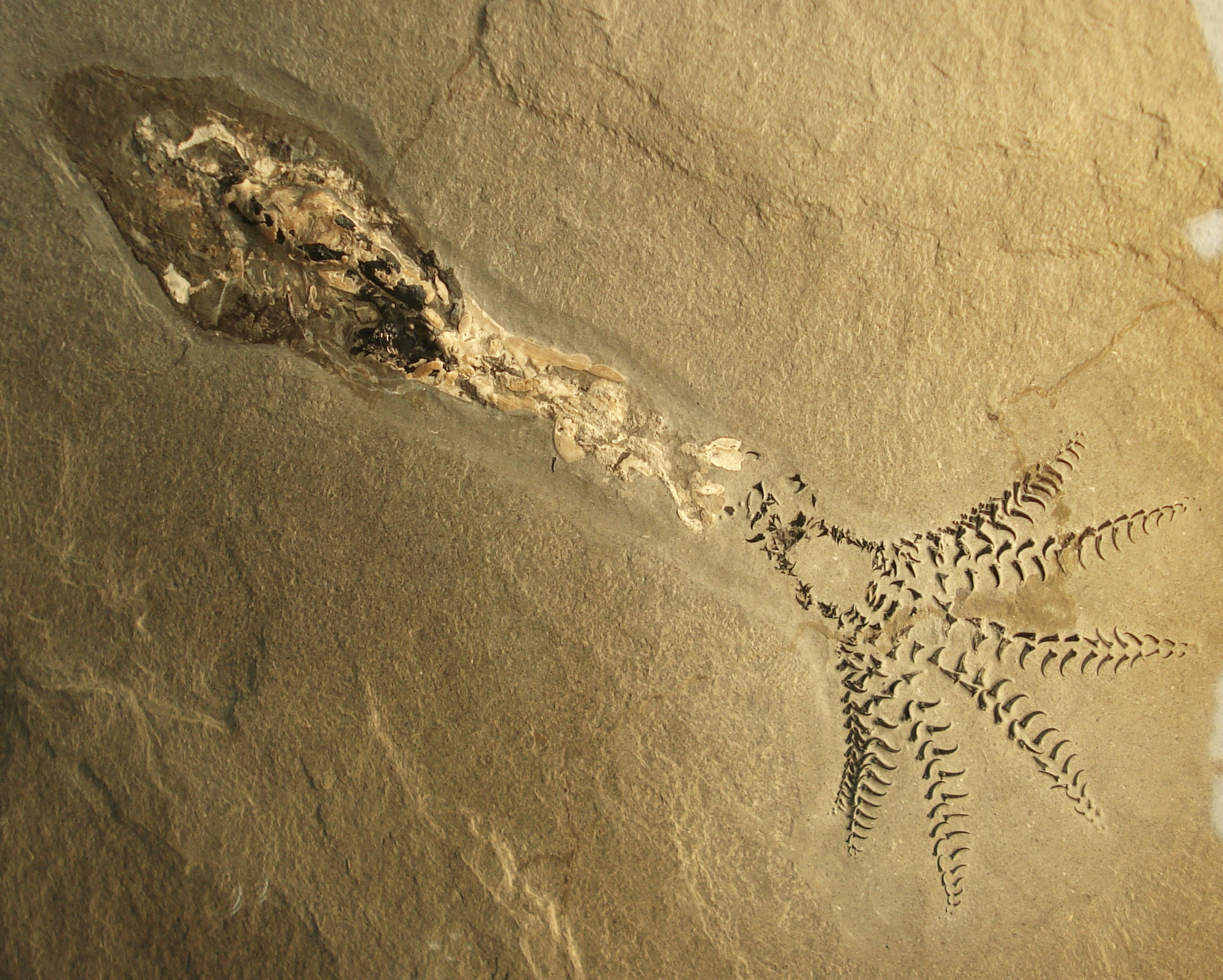 Diplobelid belemnite Clarkeiteuthis conocauda (Quenstedt, 1849) (syn. Onychoteuthis conocauda, Phragmoteuthis conocauda)[1] with preservation soft parts and arm hooks “in situ”, but without rostrum/guard, from the Posidonia Shale (Lias ε, Toarcian, Lower Jurassic) of Holzmaden, Baden-Württemberg, Germany, on display in the Paläontologisches Museum München (catalogue no. BSPG 2001 I 51).